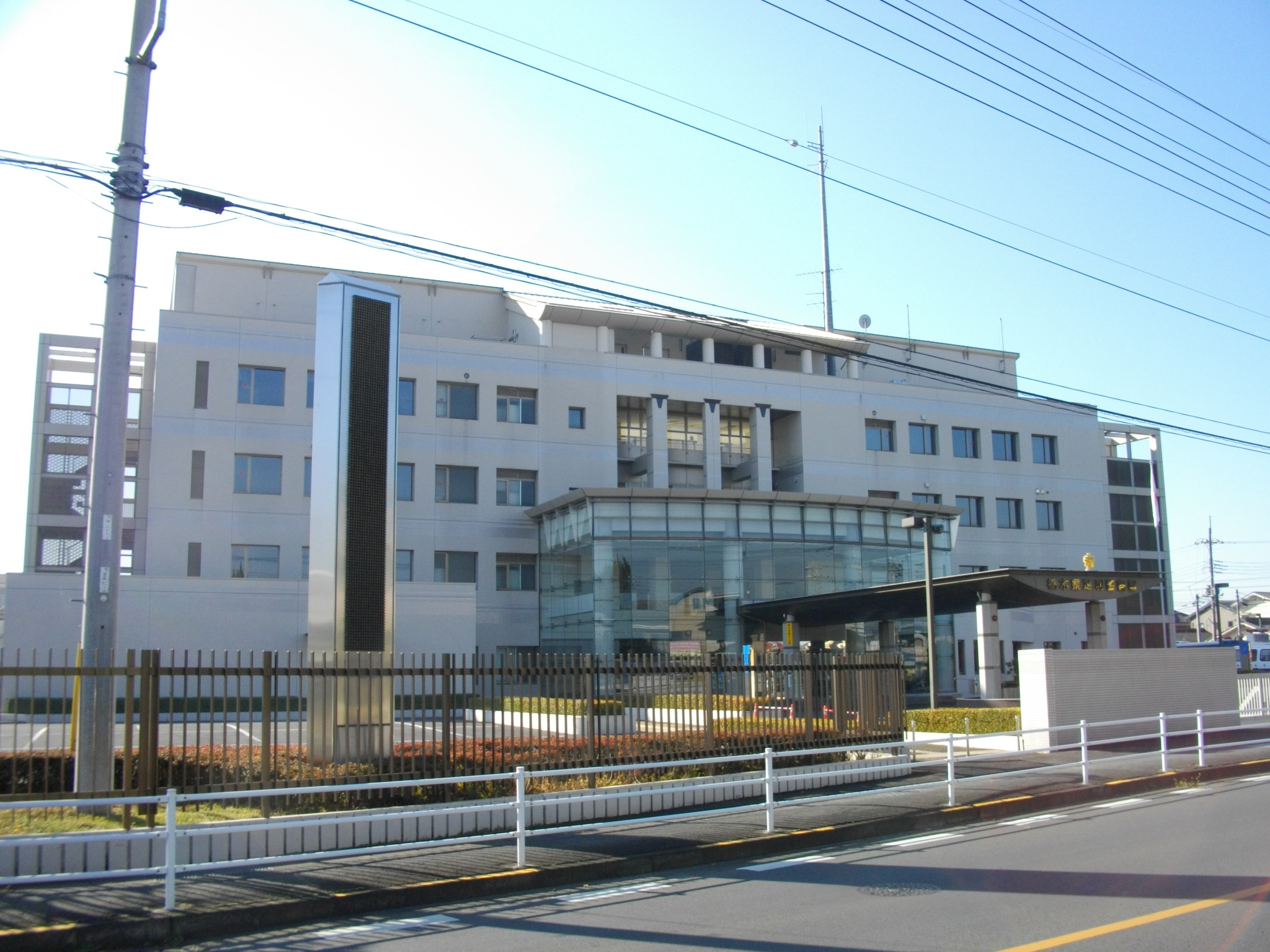 Ashikaga Police Station